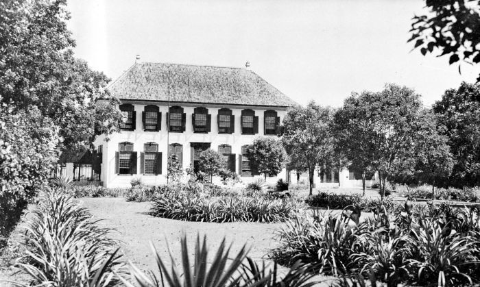 The 'Landsarchief'